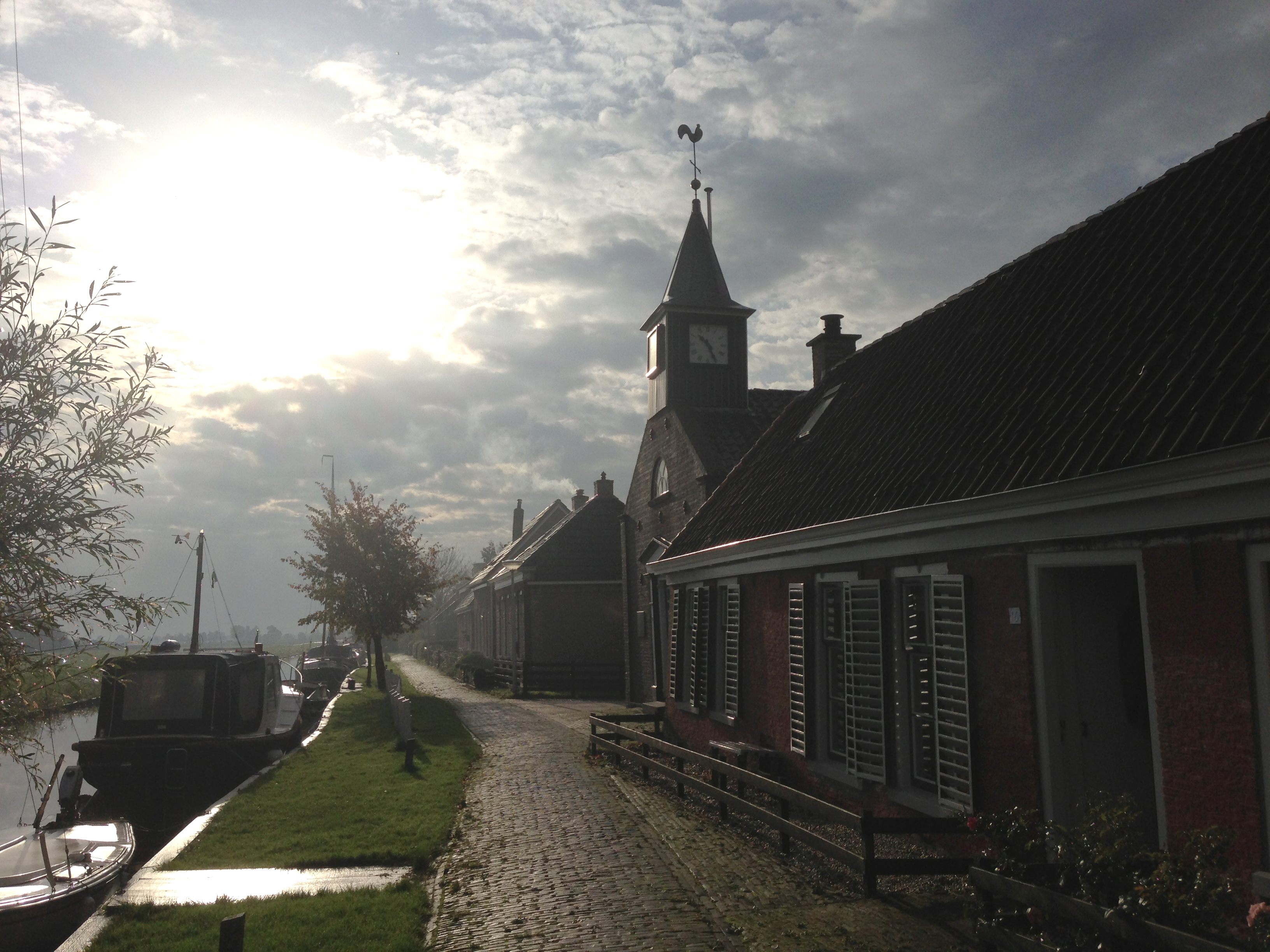 Picture of small village in Friesland, The Netherlands